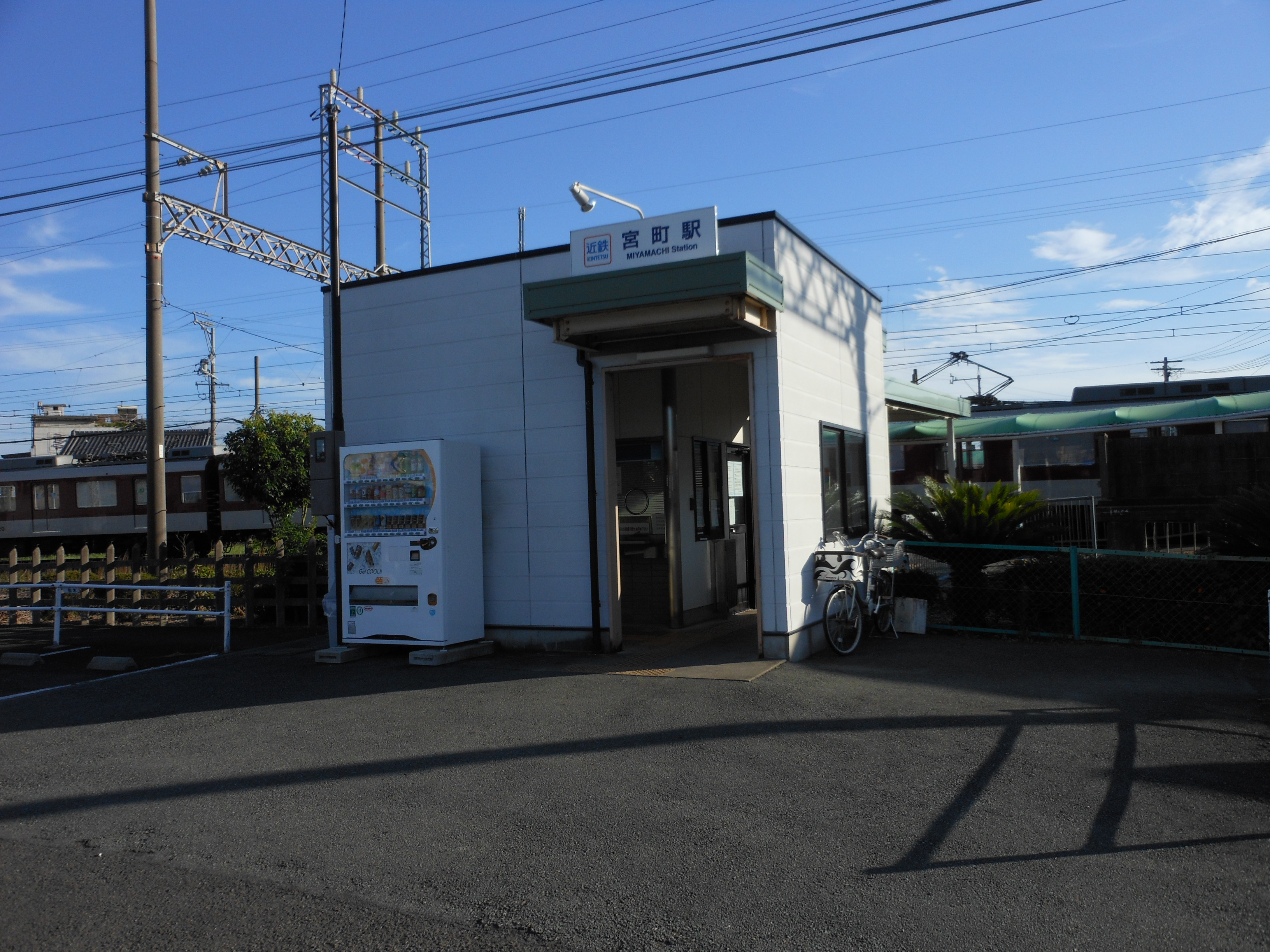 This is the east exit of Kintetsu Miyamachi station in Ise, Mie, Japan.